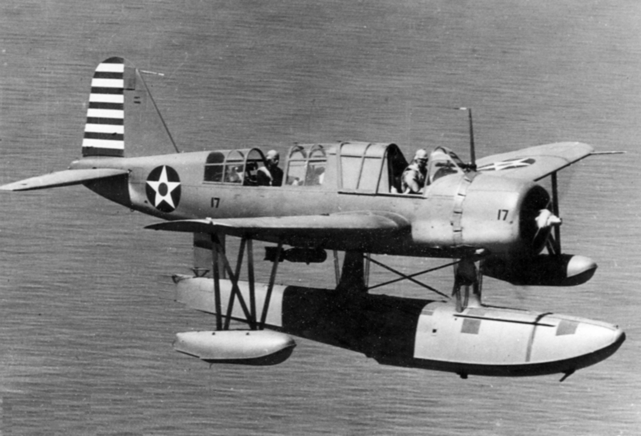 A U.S. Navy Vought OS2U-2 Kingfisher (BuNo.3117) seaplane in flight in early 1942.